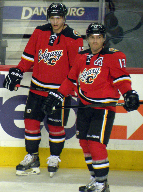 Calgary Flames forwards Sven Bärtschi and Michael Cammalleri wearing the Flames third jersey.